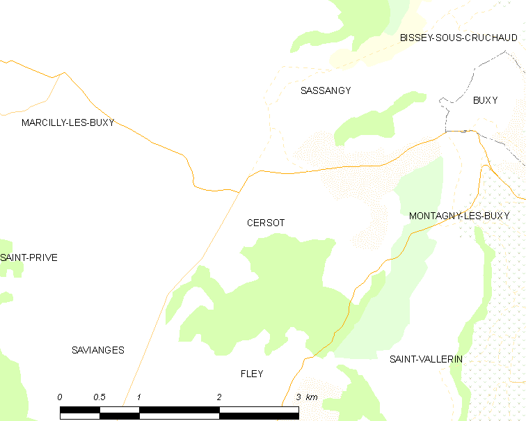 Map of French municipality